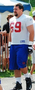 Five New York Giants football players at the first day 2007 training camp at the University at Albany, SUNY. L-R: #89 Kevin Boss, #69 Rich Seubert, #76 Chris Snee, a player whose face is obscured, and #95 Adrian Awasom. (Schedule)